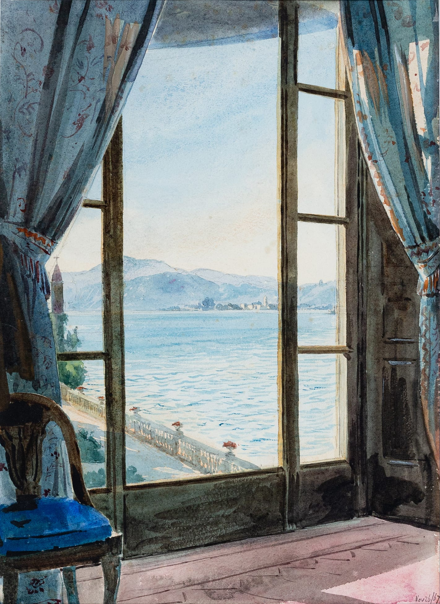 Offered for sale by Abbott and Holder in April 2020 when it was described as "BLUNT Lady Anne (‘Annabella’) (1837-1919) Window onto an (?)Italian lake. Watercolour. Dated ‘Nov.26 / (18)67’. Inscribed verso of backing and dated 1868. 15x11 inches. Frame (distressed): 24x18.5 inches."